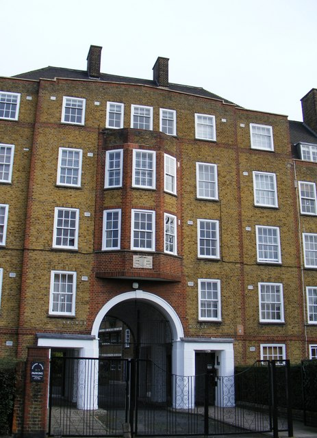 Entrance to Archer House Taken from Vicarage Crescent.